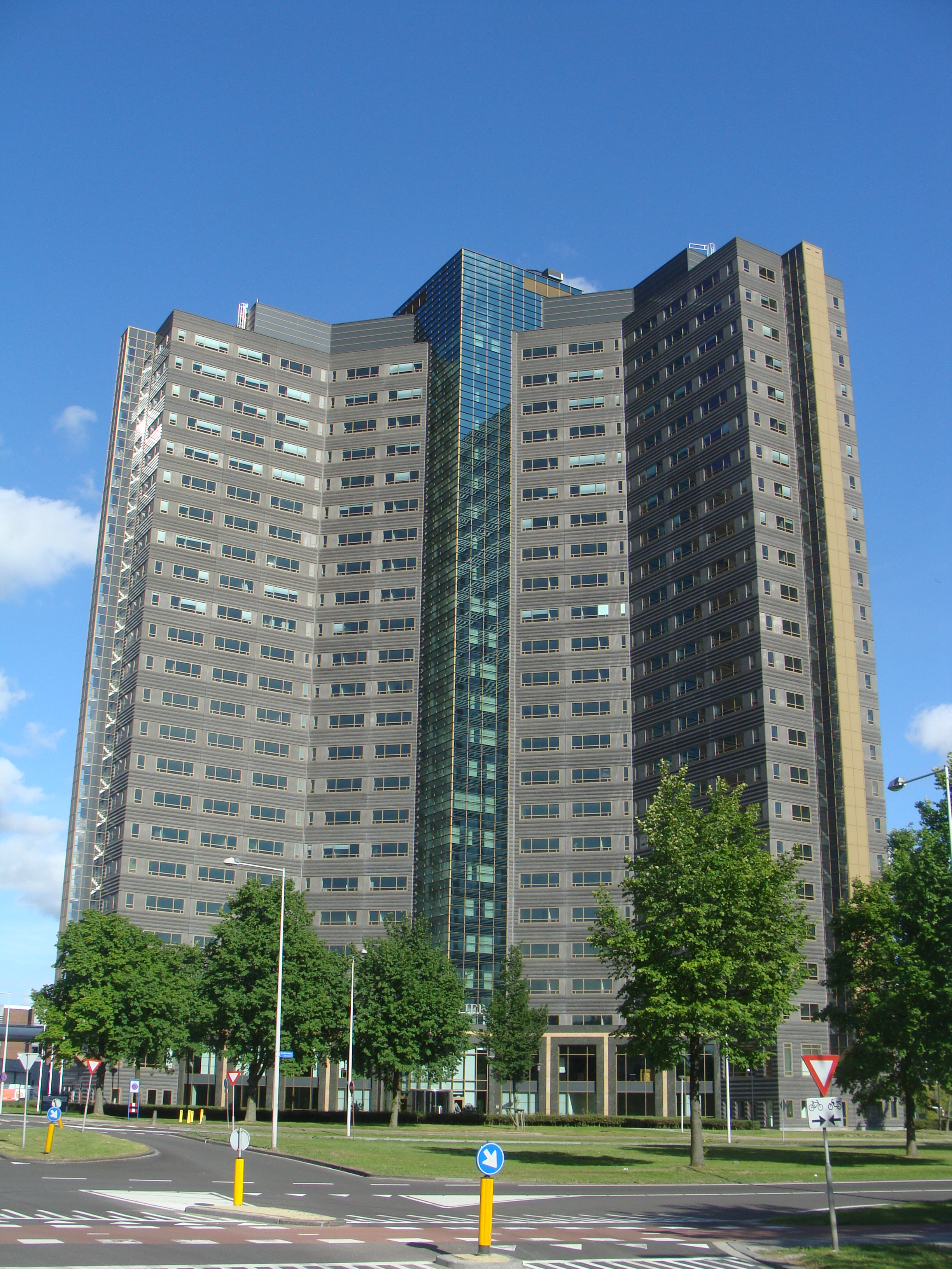 The Millennium Tower in the port area of Amsterdam, THe Netherlands. Designed by EGM Architects, completed in 2004. Main occupant is Reed Elsevier.